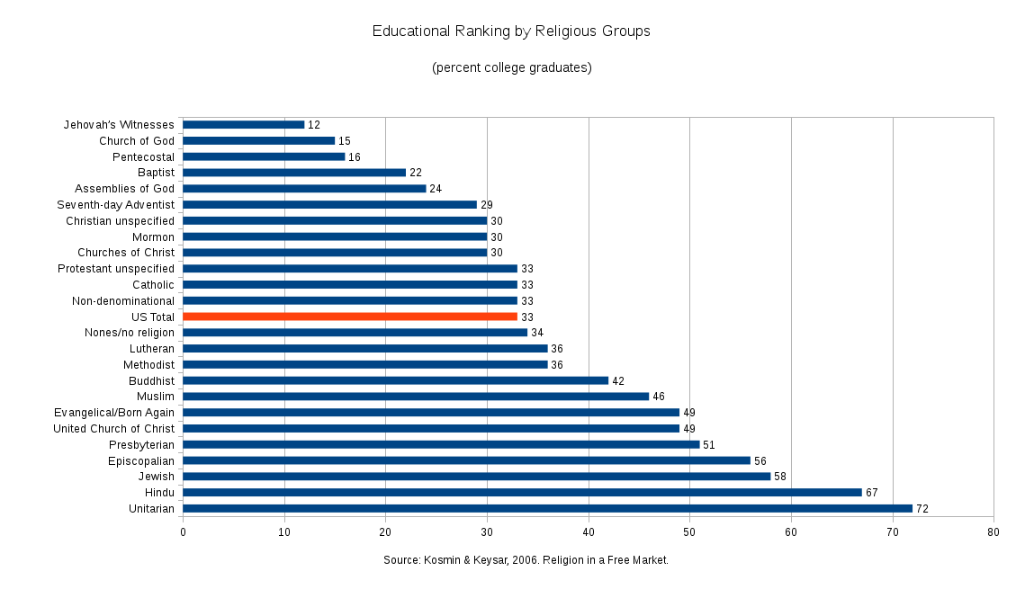 This is a figure illustrating differences in educational attainment by religious groups in the U.S. based on ARIS 2001 data.